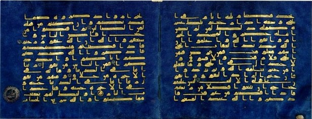 Surah al-Baqarah, verses 197-201. Kufic script. The manuscript is originally in Qairawan, Tunisia.